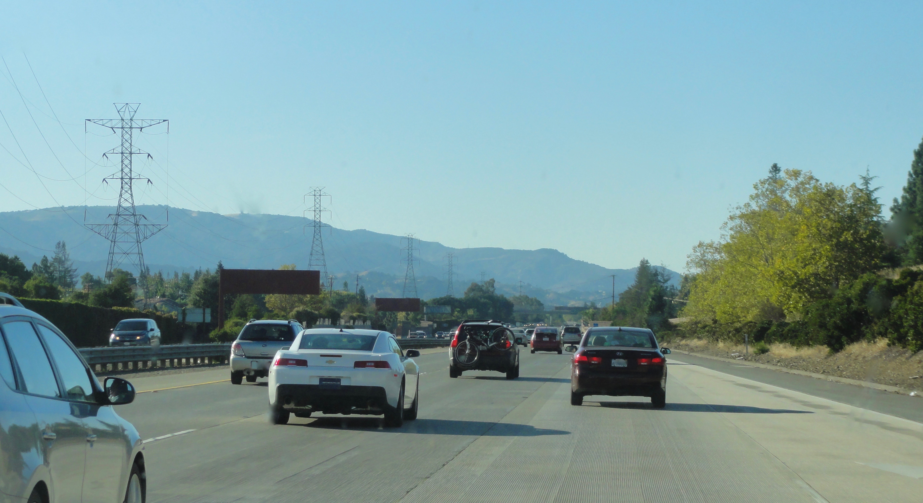 SR 85 southwest of Saratoga.